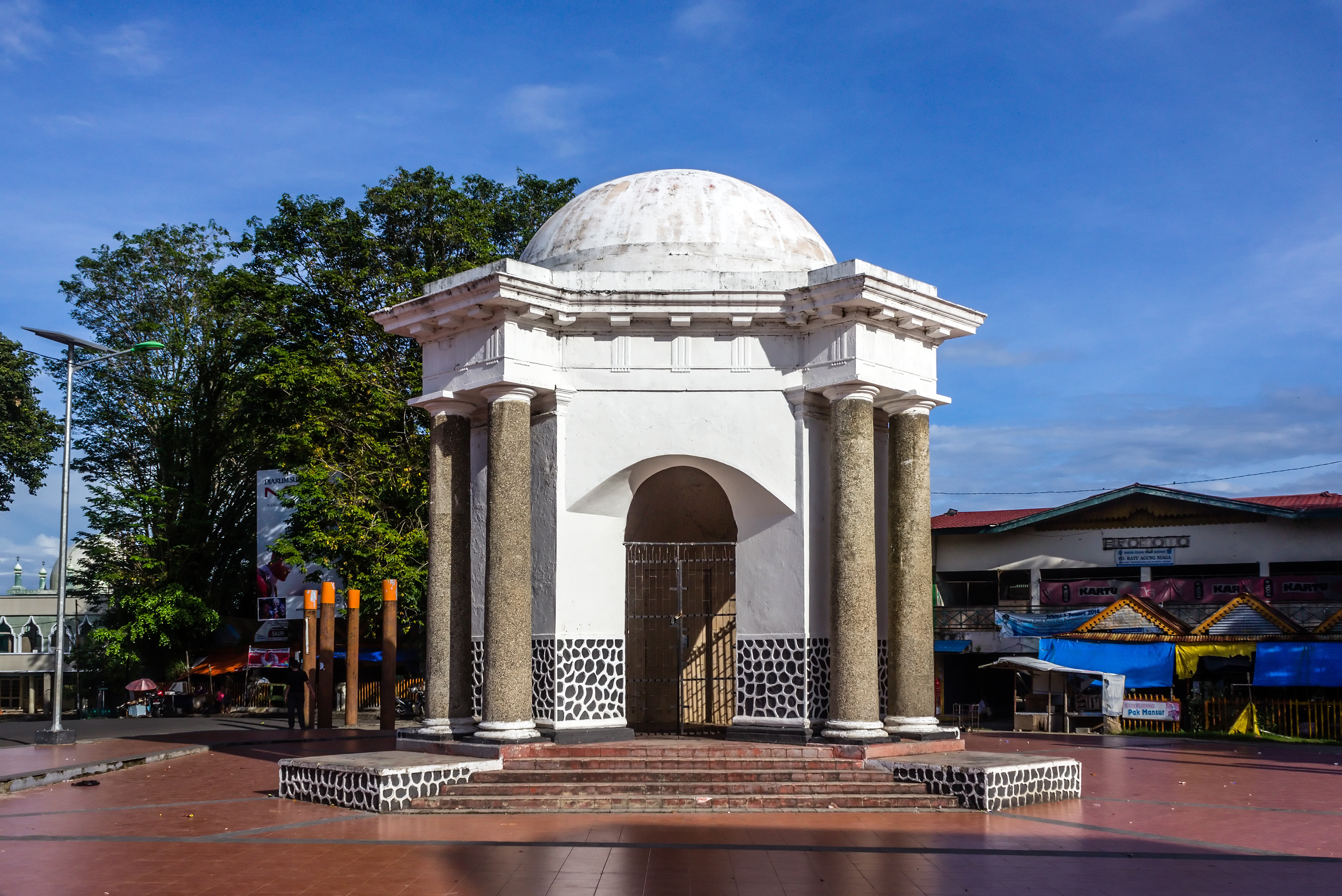 Thomas Parr Monument, Bengkulu, 2015-04-19